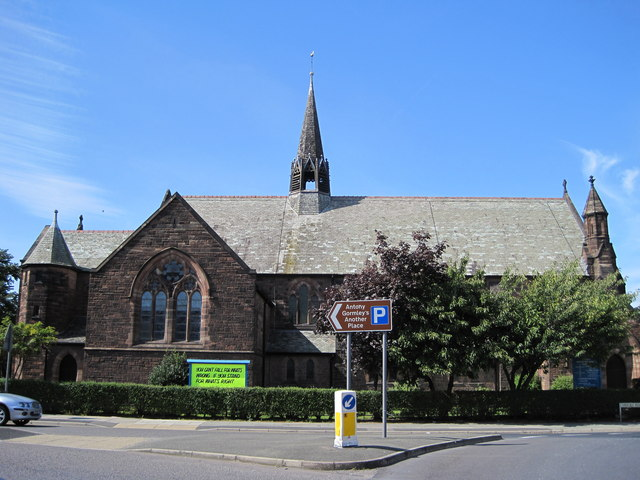 Photograph of Crosby United Reformed Church, Merseyside, England